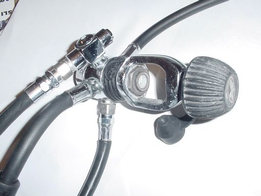 I made this photo